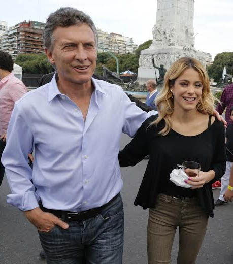 The Chief of Government of Buenos Aires, Mauricio Macri, with singer and actress Martina Stoessel before the free live performance given by the artist on May 2, 2014 in Buenos Aires.